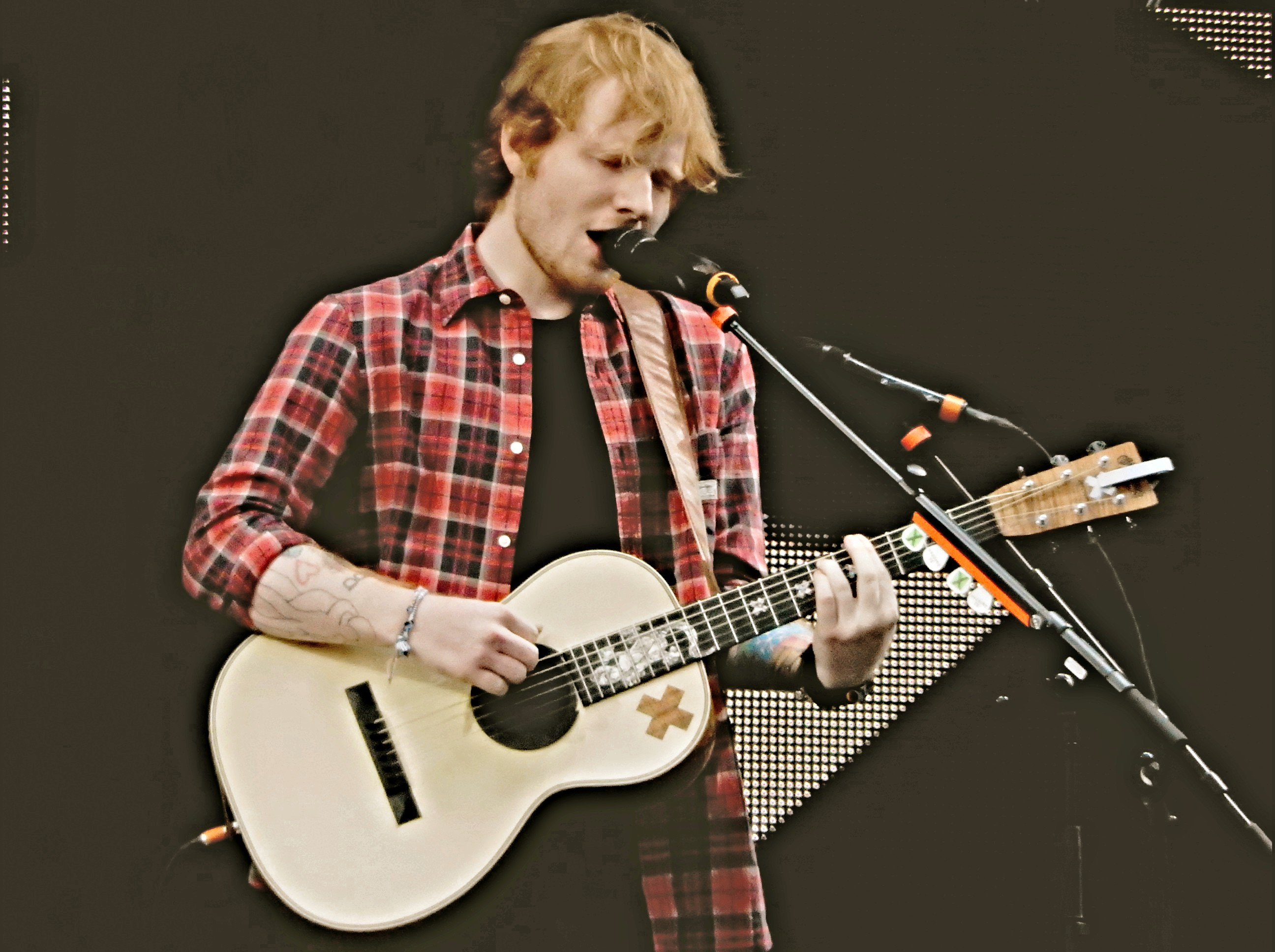 Ed Sheeran, V Festival 2014, Chelmsford